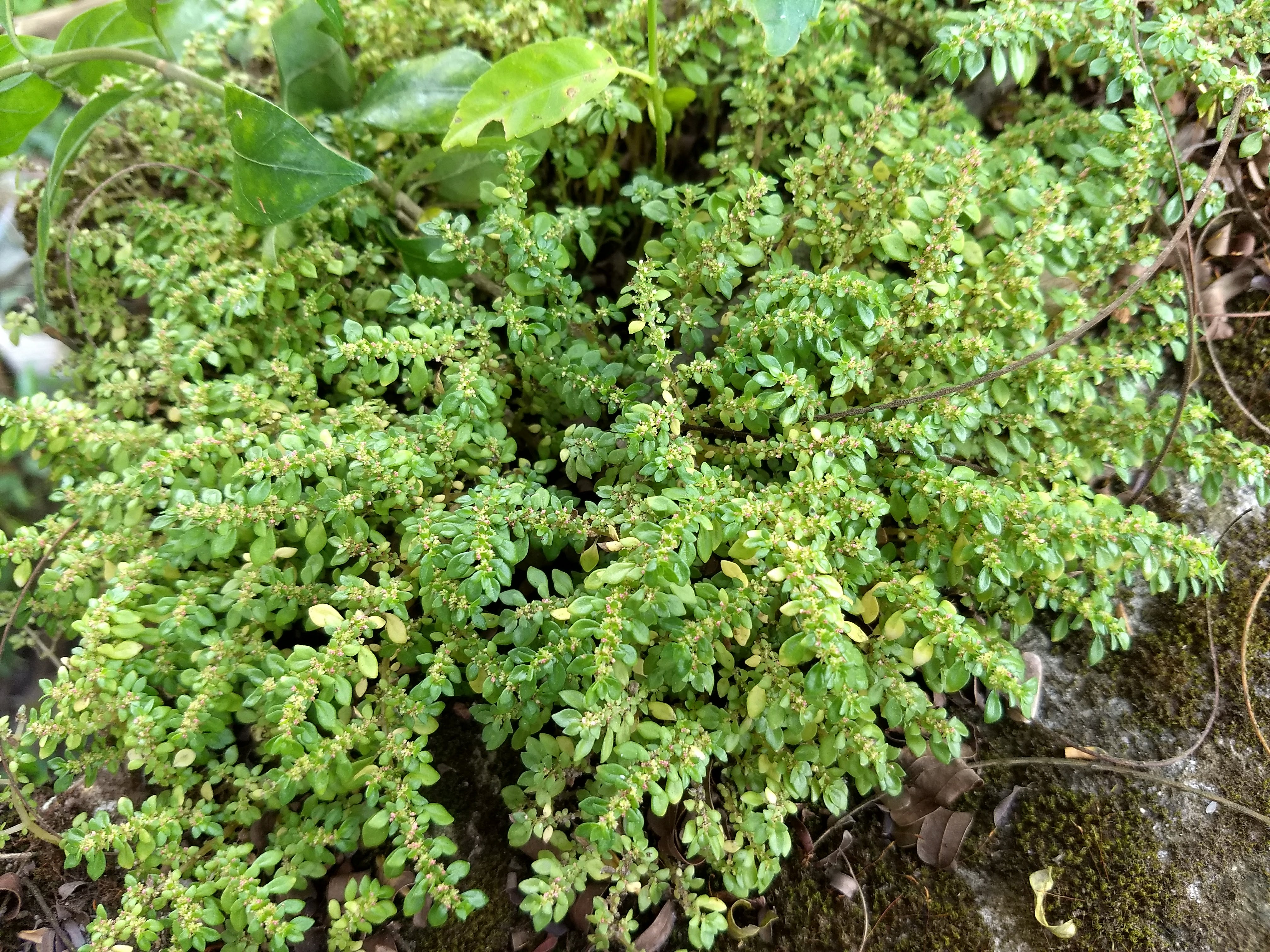 Pilea microphylla, Rockweed. From Ezhupunna